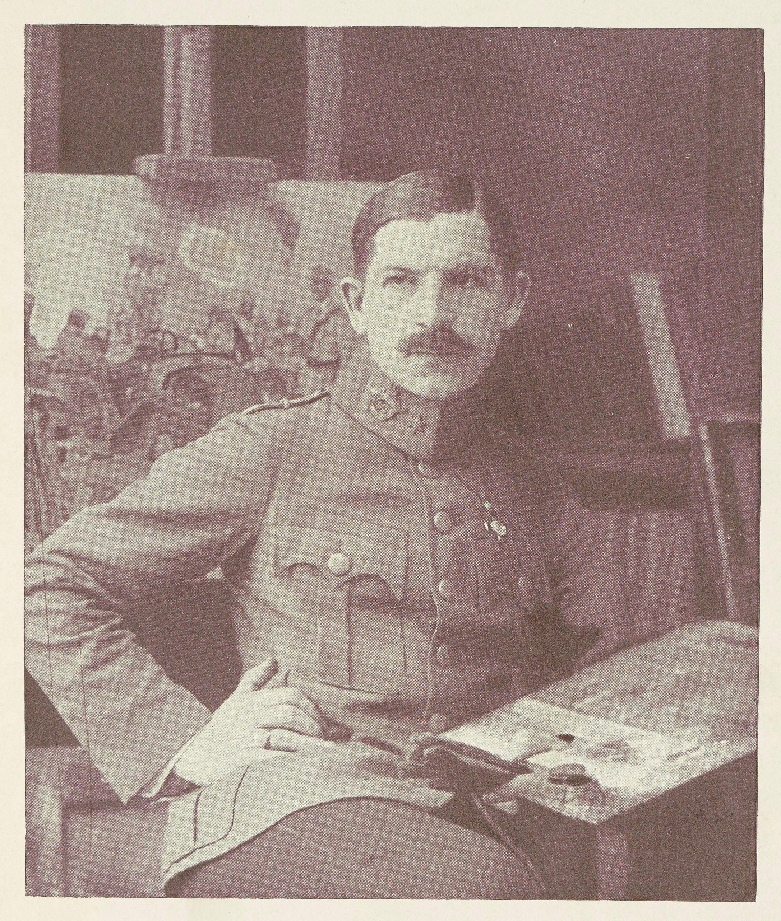 Henryk Uziembło, fot. nieznanego autora, ok. 1916 r.